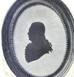 Silhouette of Salomon Lindegaard (1765-1825), Danish landowner